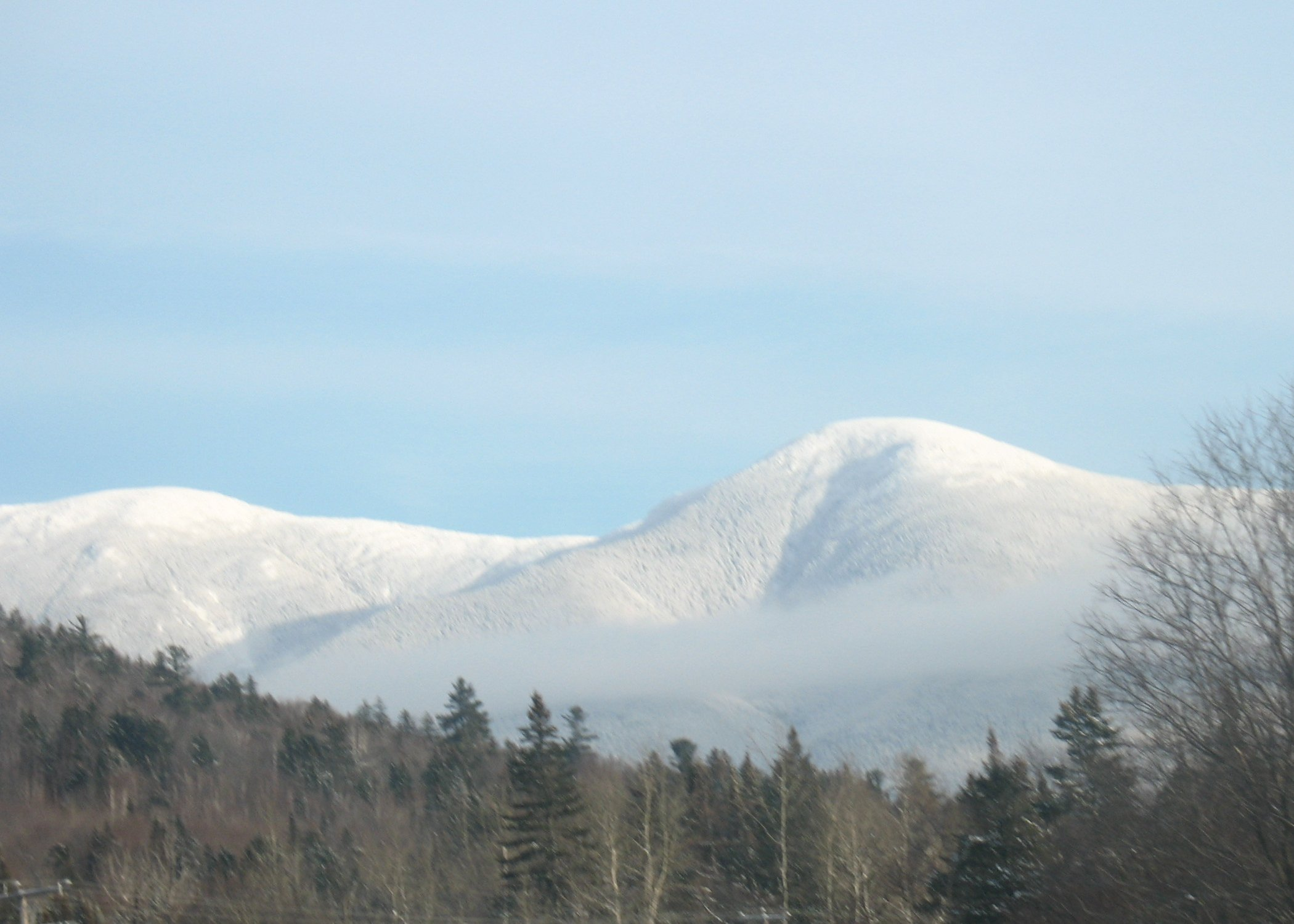 Mount Eisenhower — a snapshot taken from US Hwy 302, near Bretton Woods, New Hampshire.